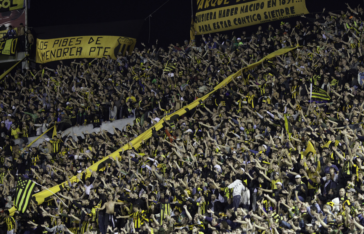 Peñarol fans during the second final of the 2009-10 uruguayan championship.